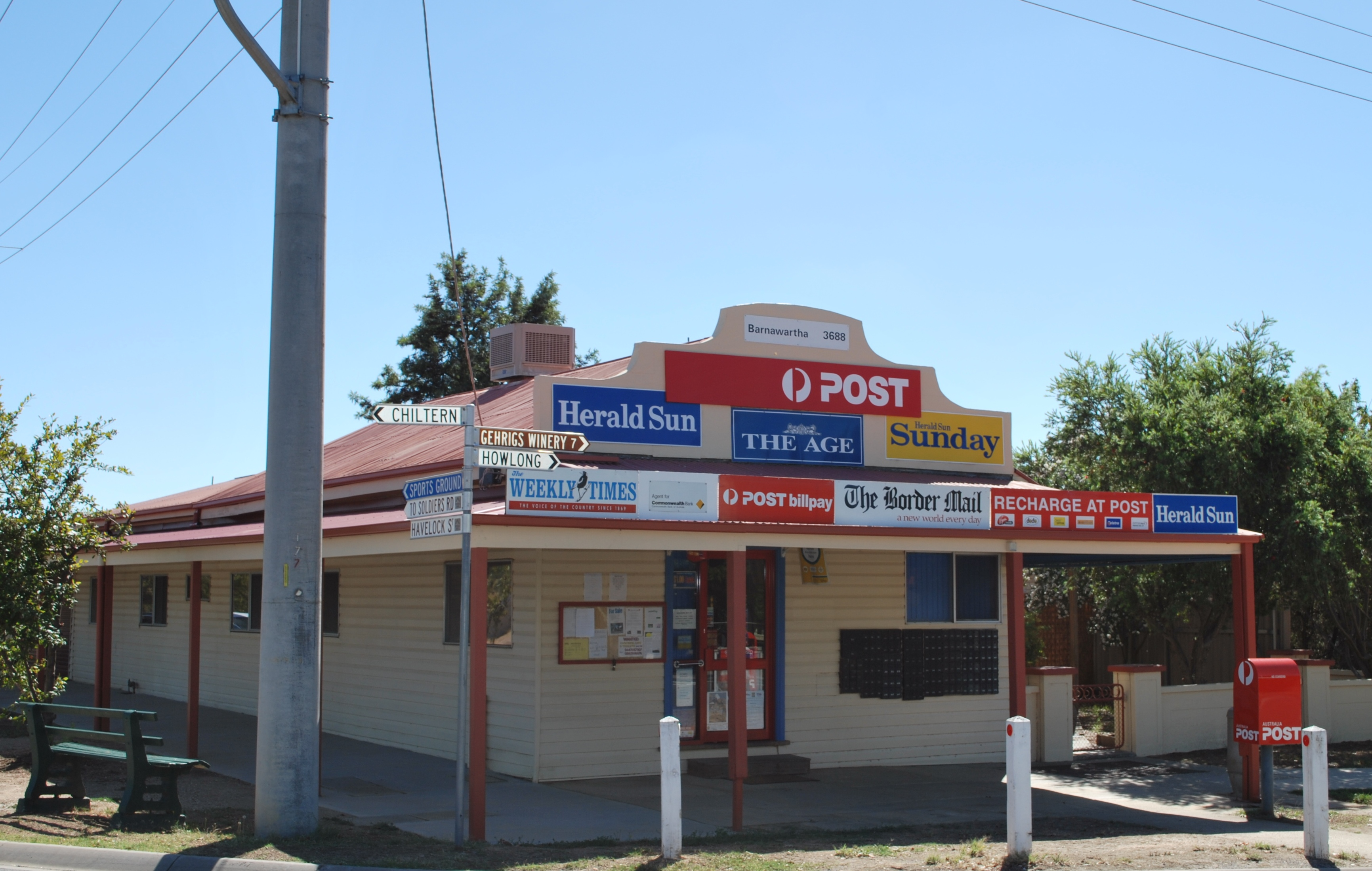 Newsagent and post office at Barnawartha, Victoria